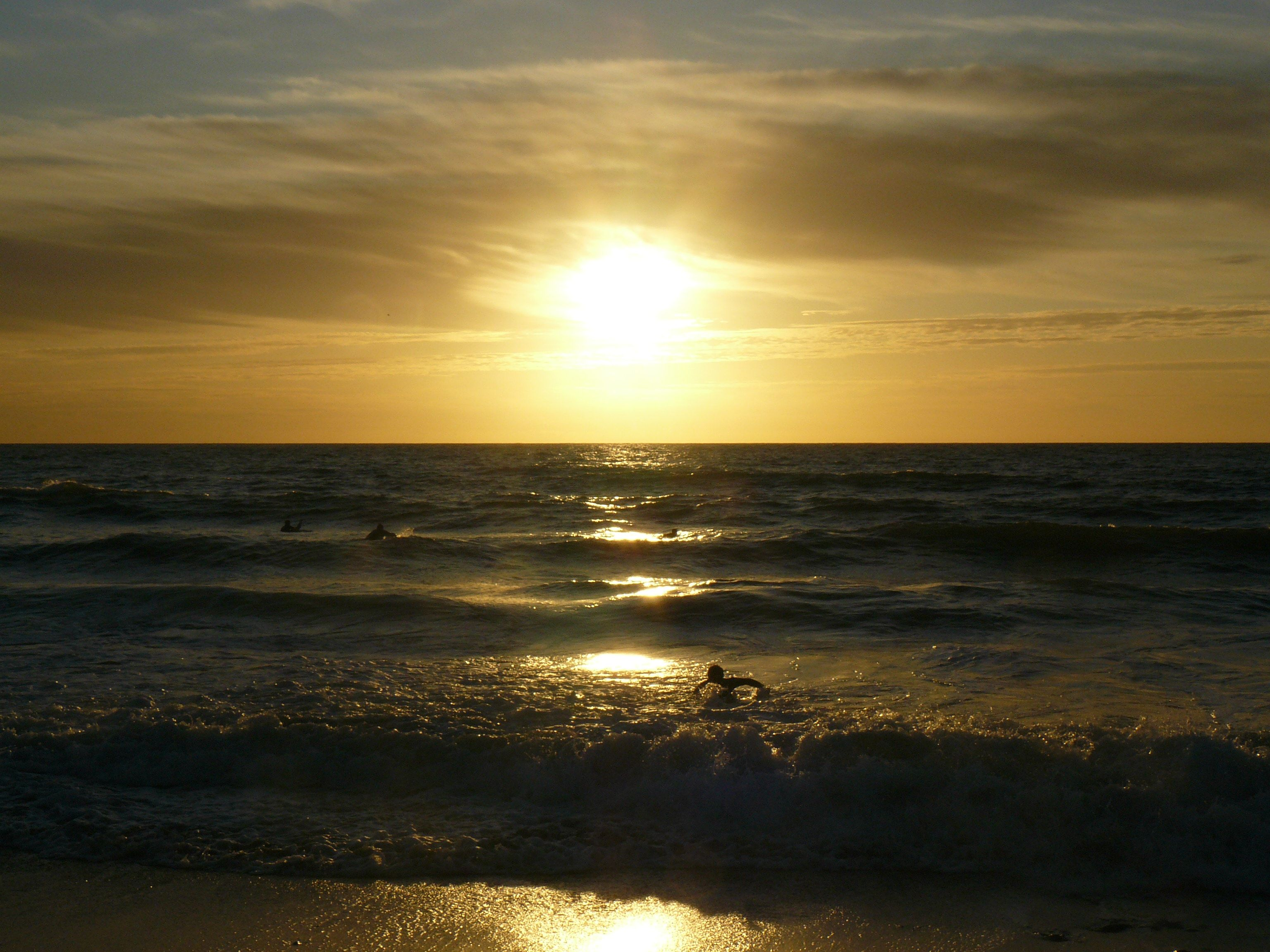 Widemouth Bay, West facing